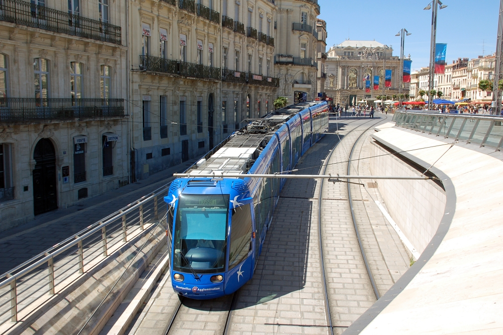 Tram, Montpellier, Languedoc-Roussillon, France